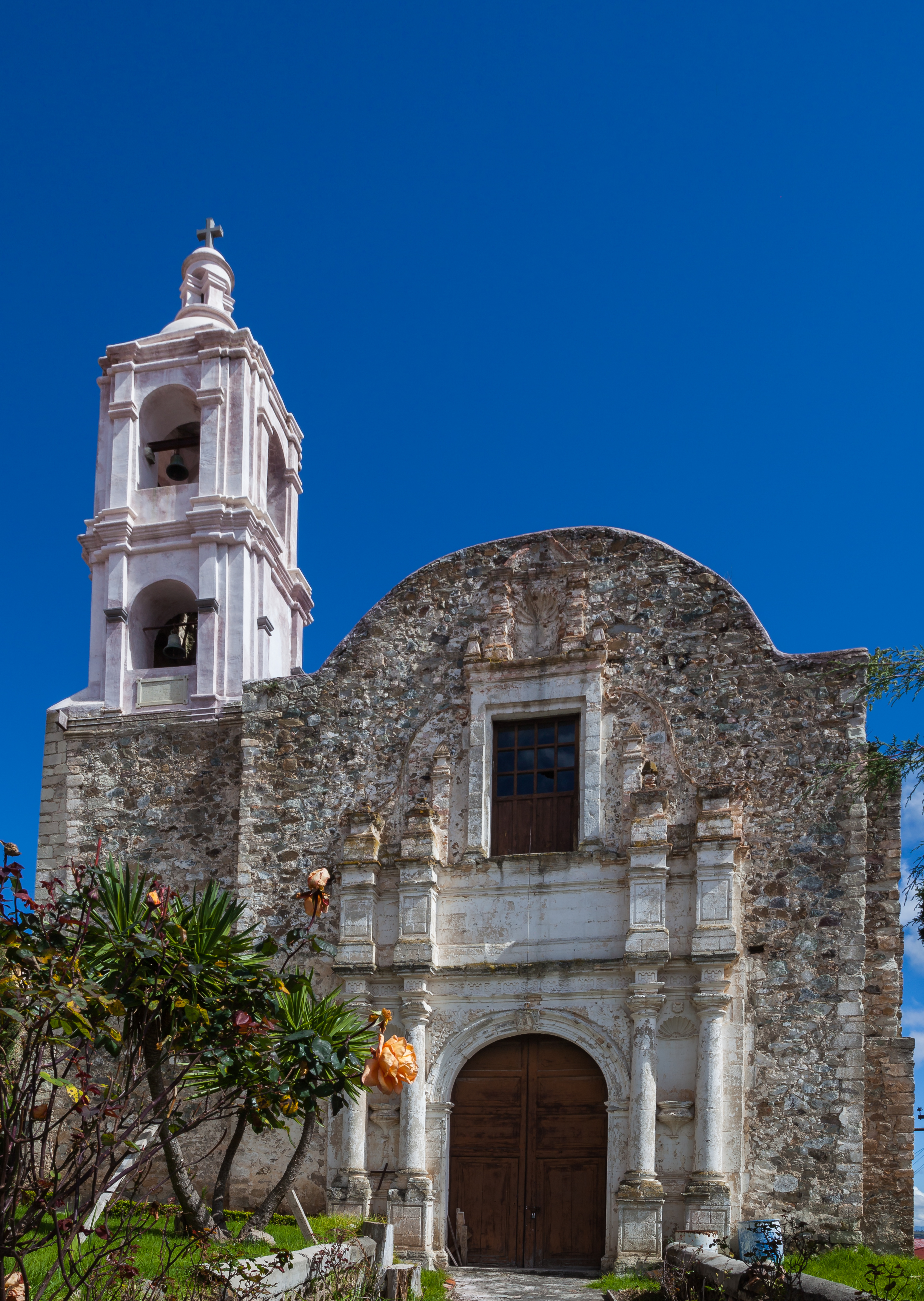 Chapel of Veracruz, Real del Monte, Hidalgo, Mexico